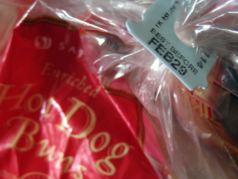 A tag sealing a bag of hot dog buns displays the expiration date. Oddly, it says that the expiration date is February 29, even though the year in which the hot dogs were sold was not a leap year. Photographed by Brandon Dilbeck on February 28, 2007.